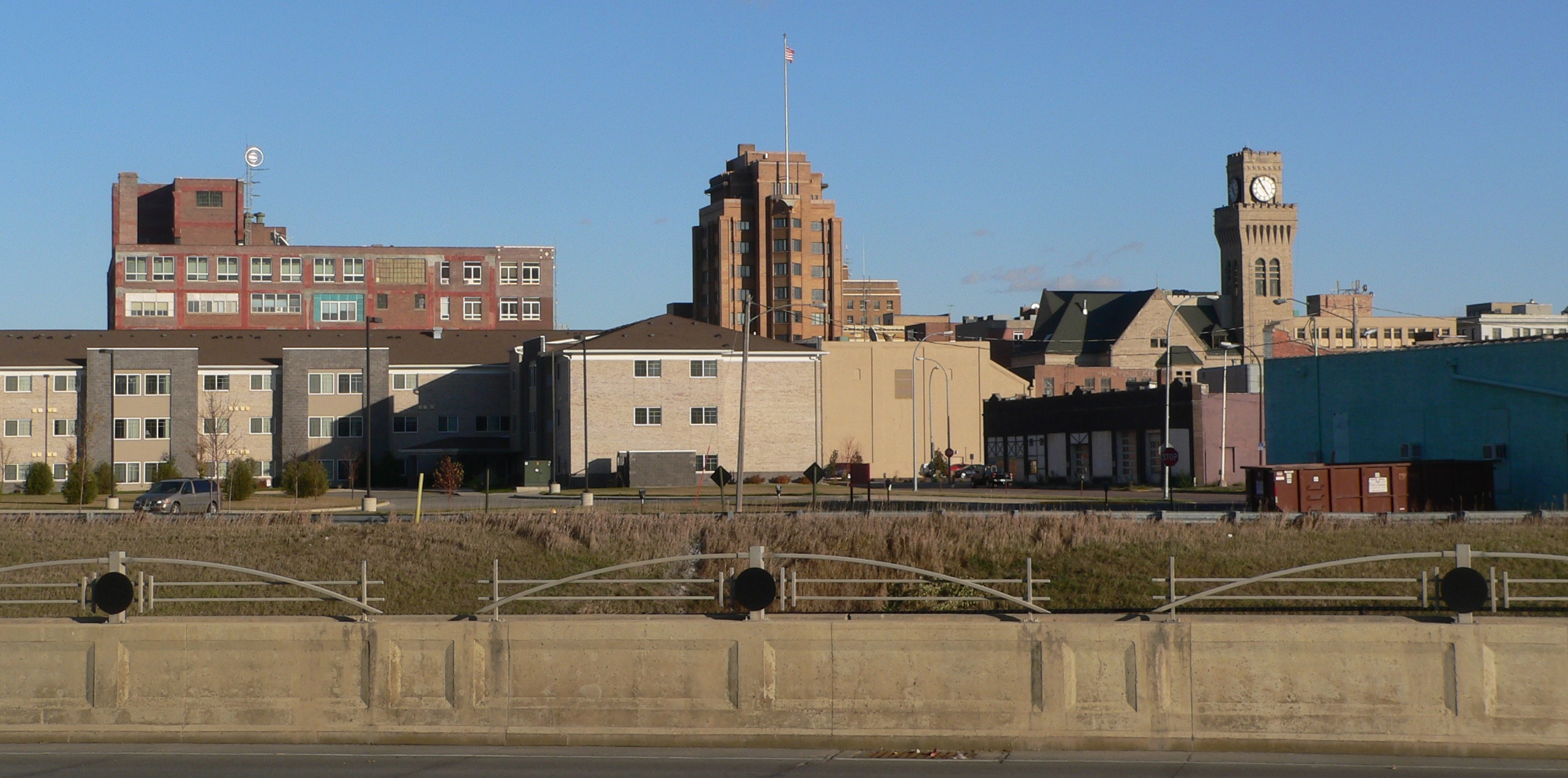 Downtown Sioux City, Iowa: seen from the west-northwest, across Wesley Parkway. The building with the tall flagpole in the center of the photo is the Woodbury County Courthouse.